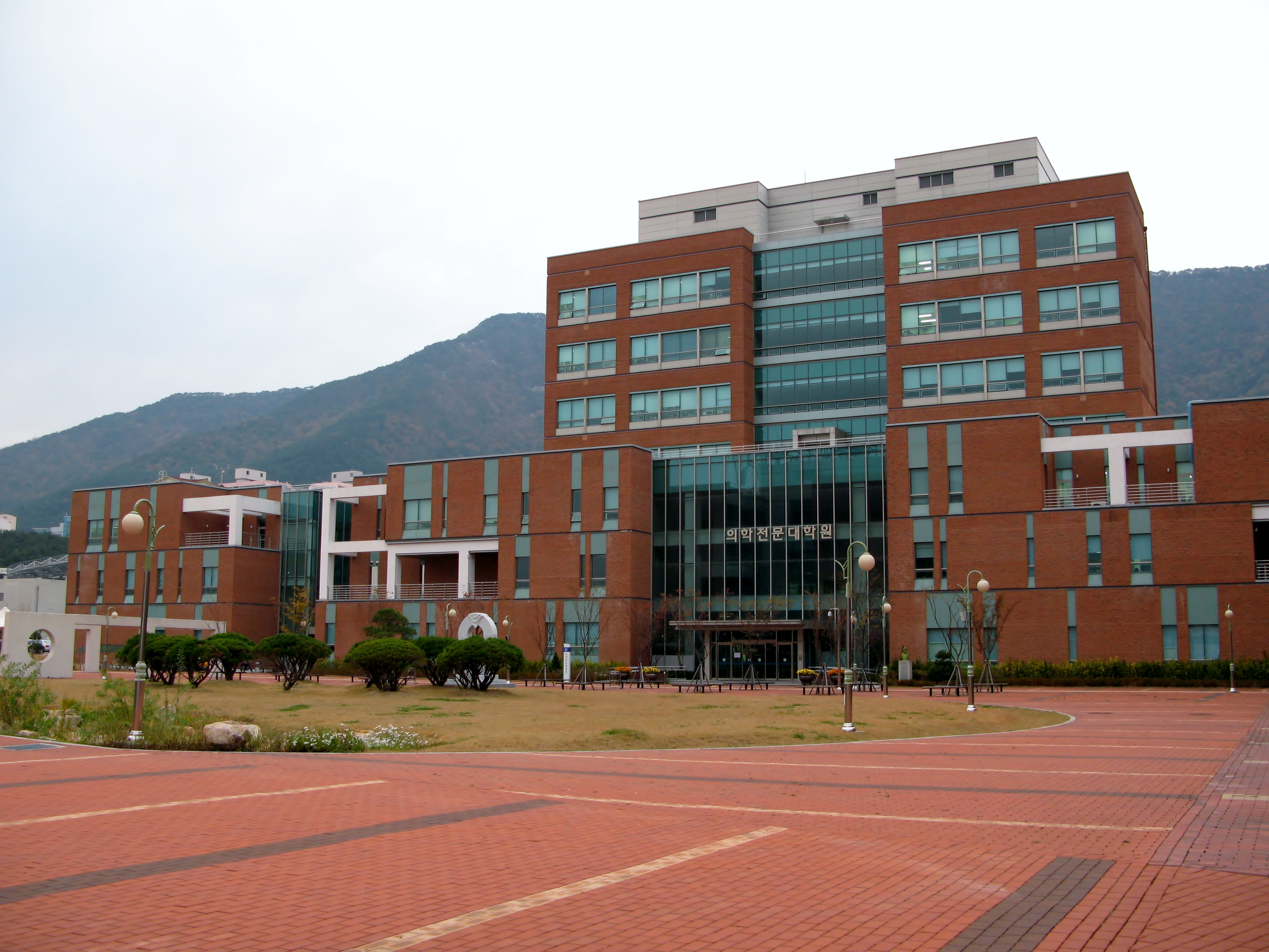 School of Medicine in Pusan National University Yangsan Campus